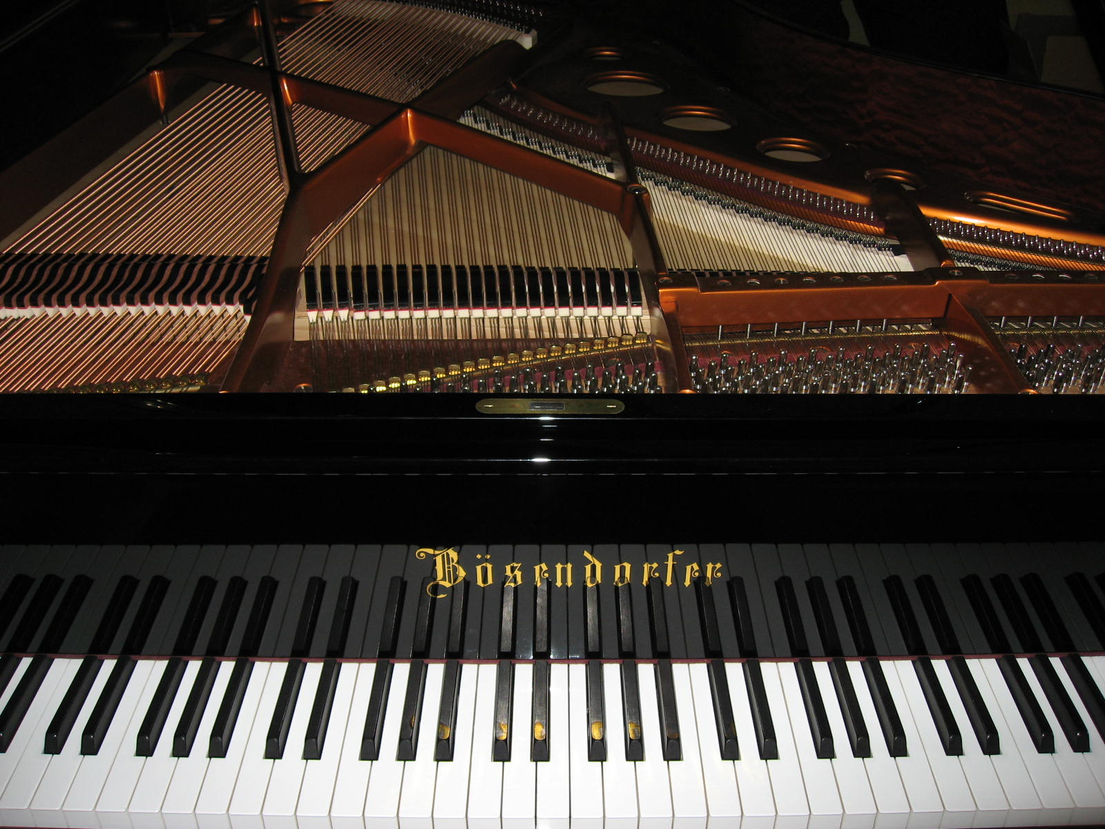 Image of a Bösendorfer 185 piano. This Bösendorfer 185 (6'1") piano was built in 2006.